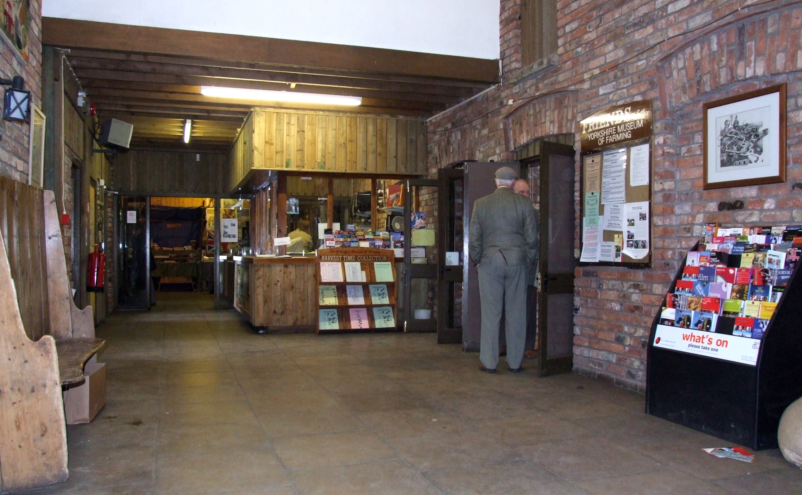 Main entrance area at the Yorkshire Museum of Farming at Murton Park, York, North Yorkshire, England.